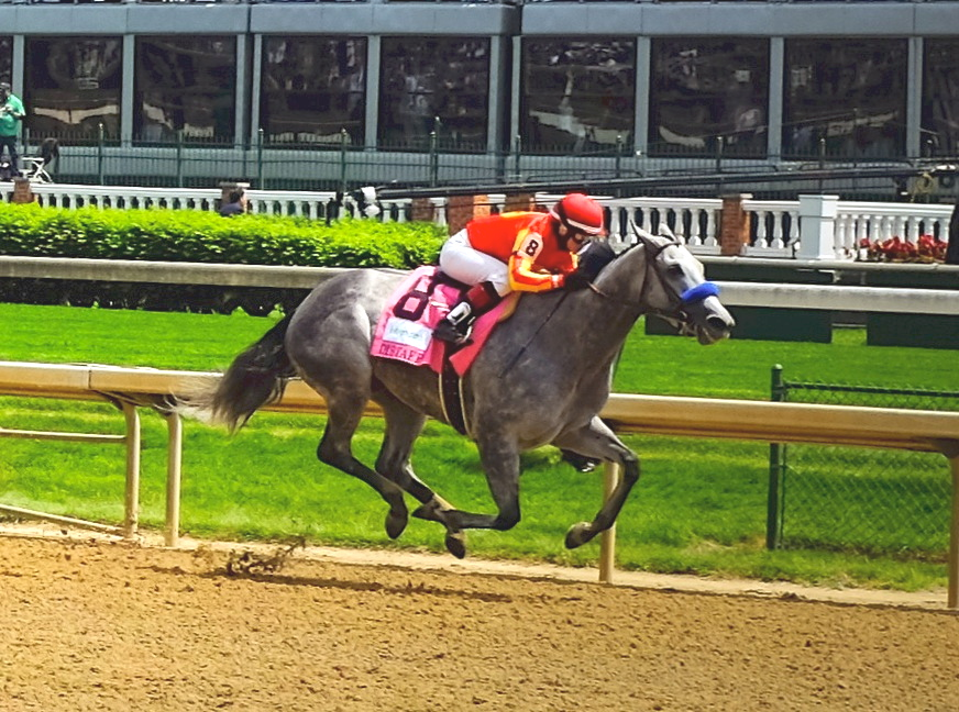 Midnight Lucky and Rosie Napravnik winning the 2014 Humana Distaff on the undercard of the Kentucky Derby, May 3, 2014. Horse trained by Bob Baffert